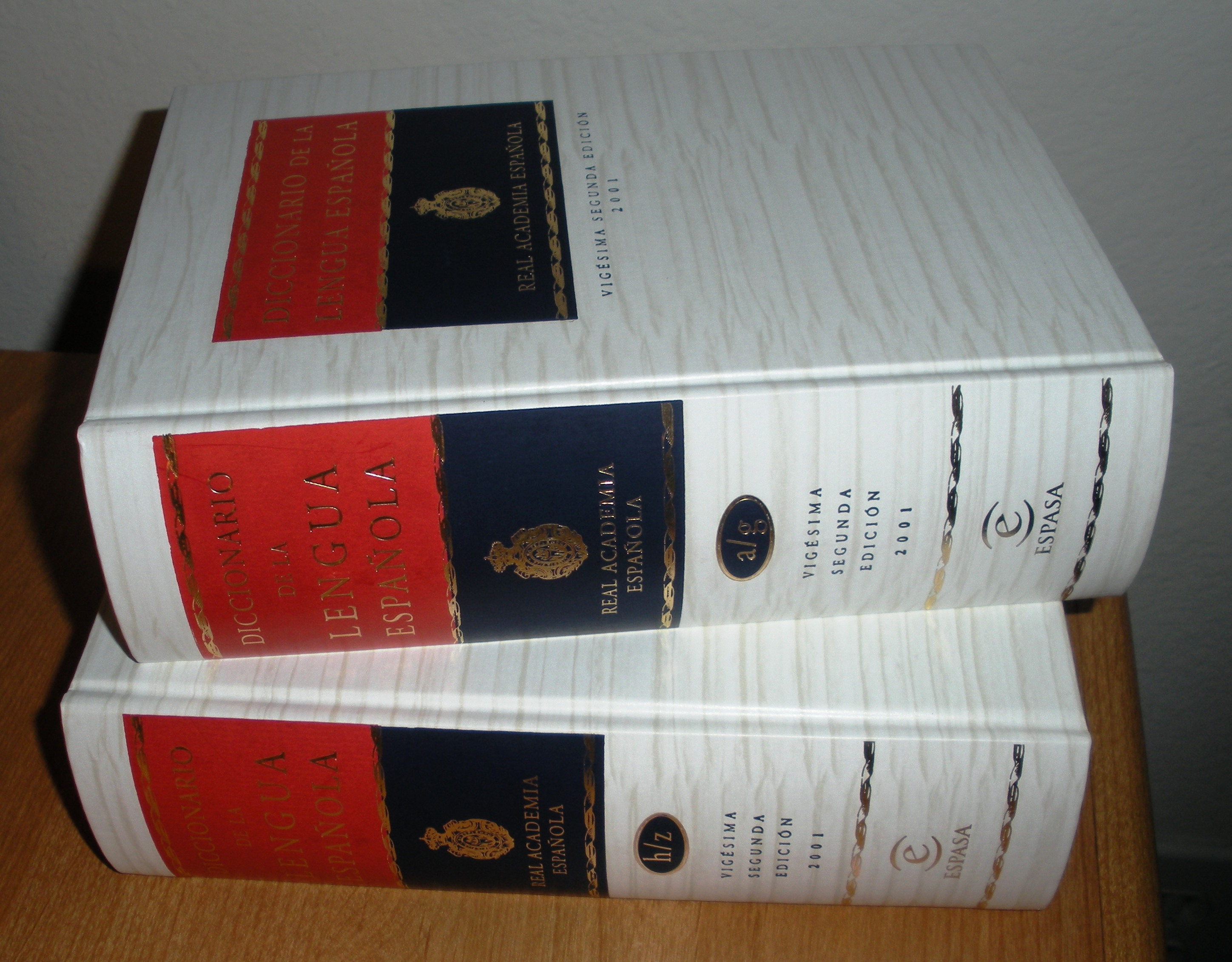 The Twenty-Second Edition of the Diccionario de la lengua española (the Dictionary of the Royal Spanish Academy).